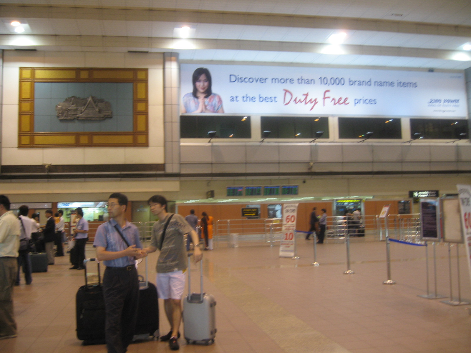 Bangkok (Don Mueang) International Airport, Terminal 2, Departure Hall.